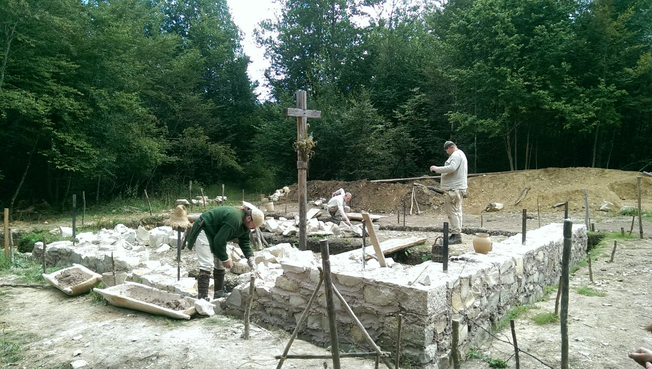 Campus Galli, a project to construct a faithful medieval town with a Carolingian monastery, based on the Plan of Saint Gall; in Meßkirch, Baden-Württemberg, Germany. August 2014.